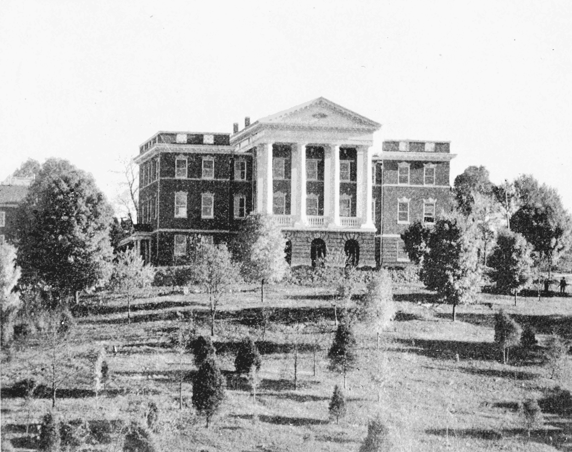 Engineering hall of Washington and Lee university